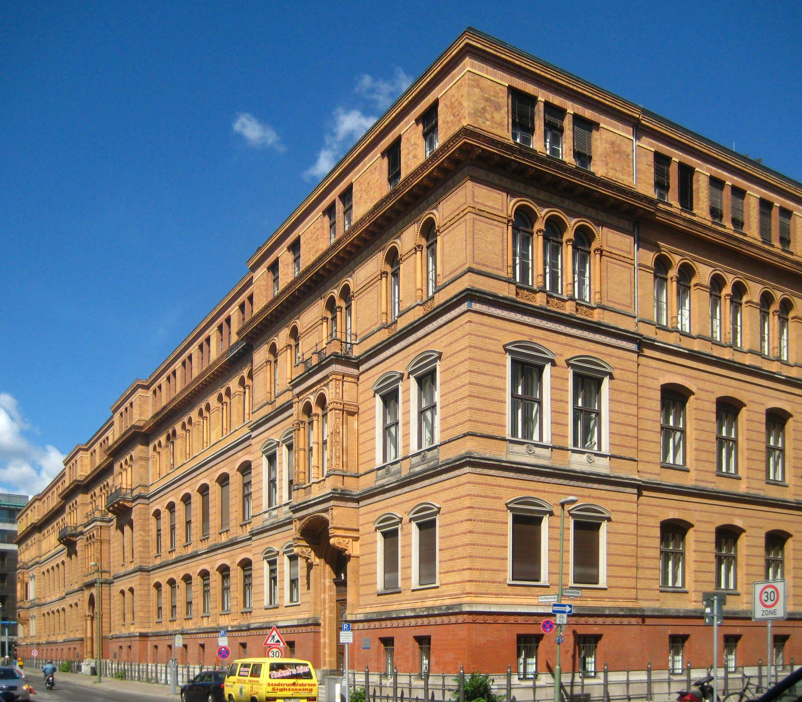 Former building of the medicine and natural sciences institutes of Frederick William University (now Humboldt University) in Berlin-Mitte. The building once occupied the whole block between Dorotheenstraße, Wilhelmstraße, Reichstagufer and Bunsenstraße. It was built 1873-1883 to a design by Paul Spieker; other architects involved included Karl Zastrau and Moritz Hellwig. The wing of the physics institute was heavily damaged in WWII and later demolished. In its place now stands the Berlin studio of the TV and radio network ARD. The preserved parts of the university building have been dedicated as a historic landmark.